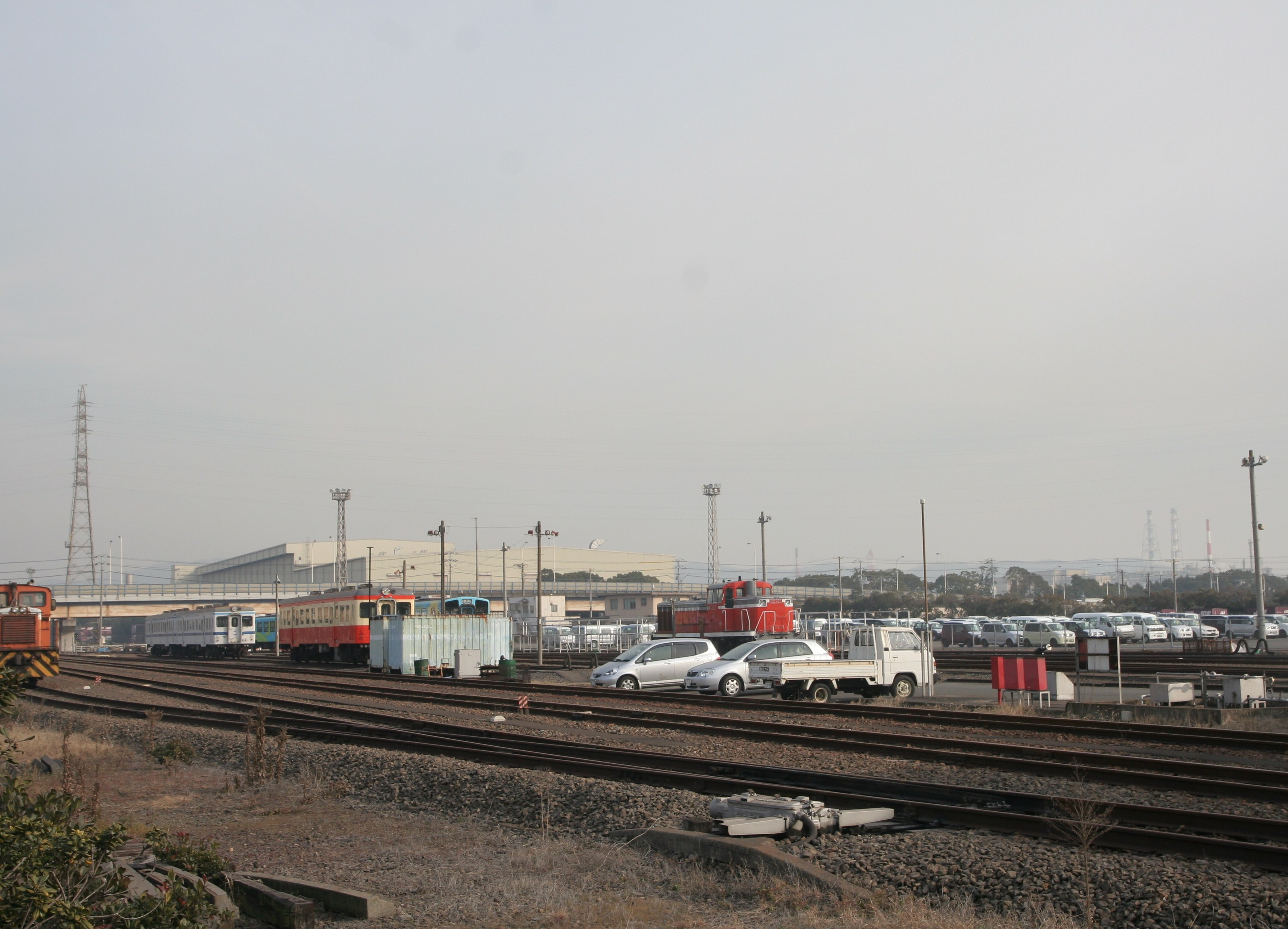 Mizushima Rinkai Railway Kurashiki Freight Terminal